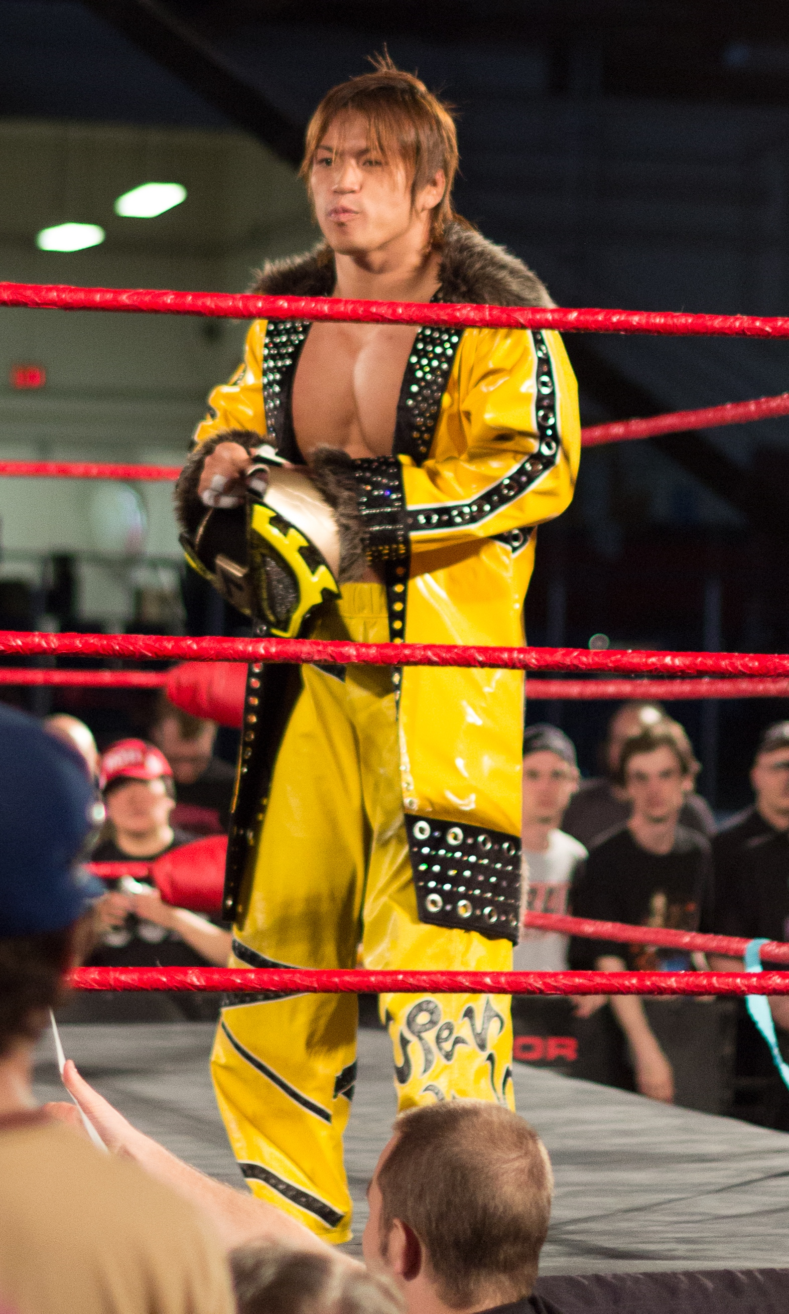 Taiji Ishimori at the Ring of Honor tapings held at the Ted Reeve Arena in Toronto.